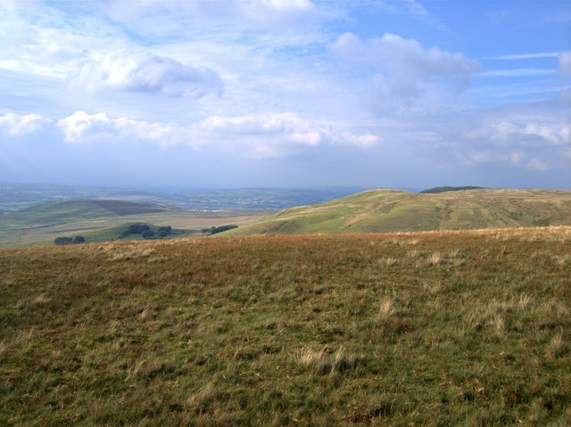 Castell Rhyfel Apparently, this end-of-the-ridge top at the southern tip of the Garn Gron plateau is a prehistoric hill fort. While there are some bumps in the grass which could have been part of a circular earth wall, it takes an expert to be conclusive about this. The name Castell Rhyfel means war castle. Interestingly, a nearby farm in SN7260 is called Gwar-castell, which seems to be a "cymrisized" version of the English translation. More details can be found in the Coflein[1] entry for Castell Rhyfel . For views of the hill fort from an attacker's perspective, and .